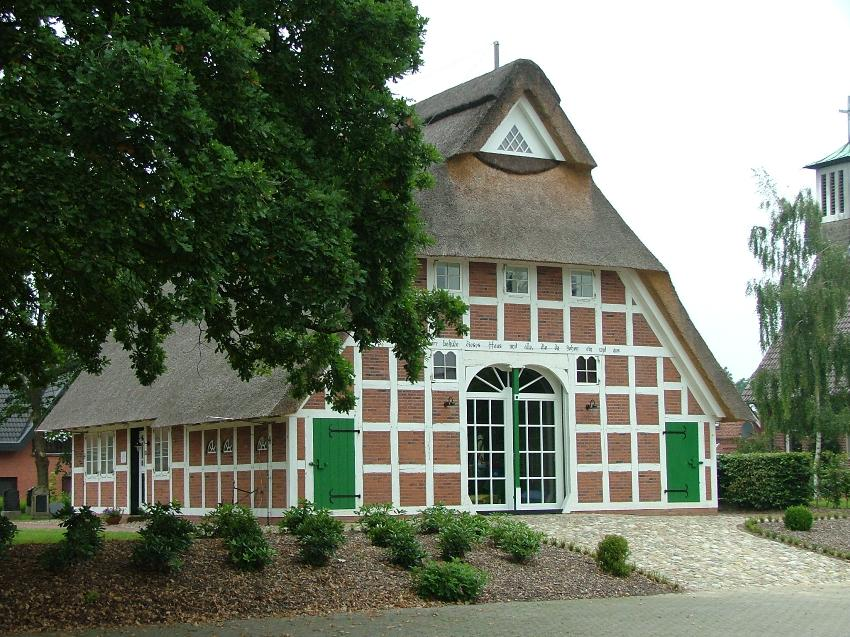 "Findorff-Haus" in Iselersheim